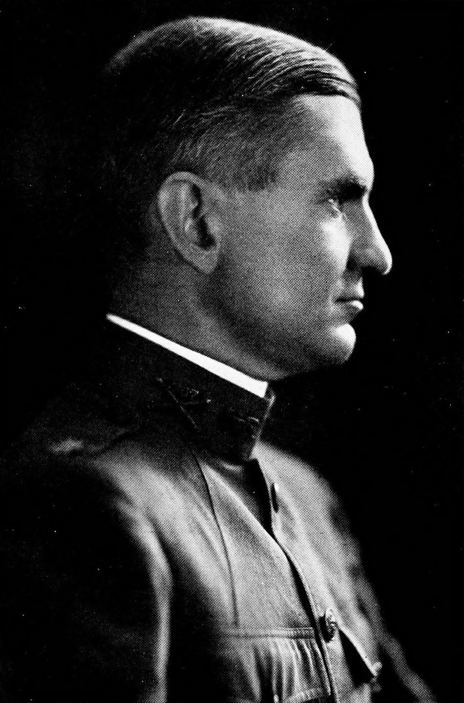 A. Conger Goodyear (Army officer, businessman, philanthropist)